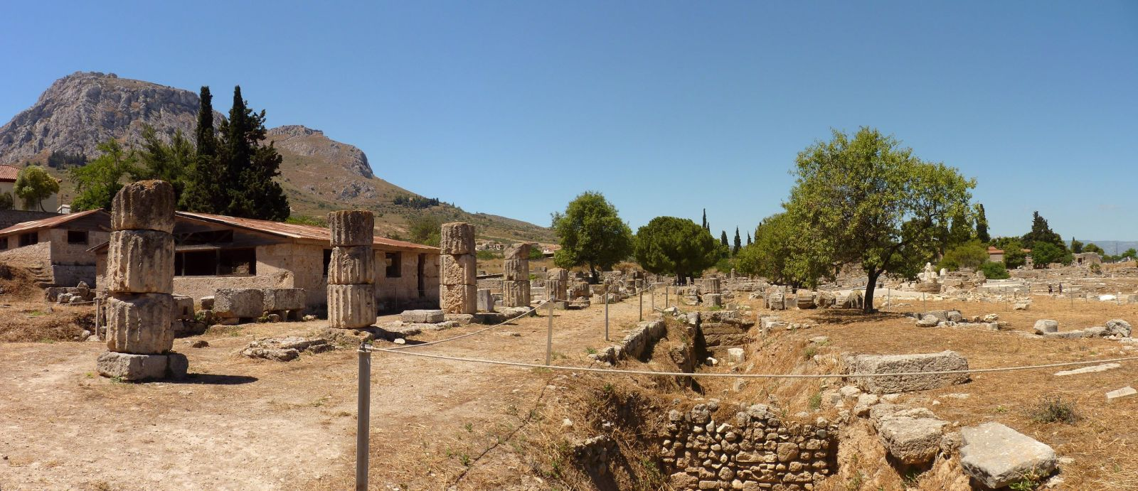 Ancient Corinth - South Stoa